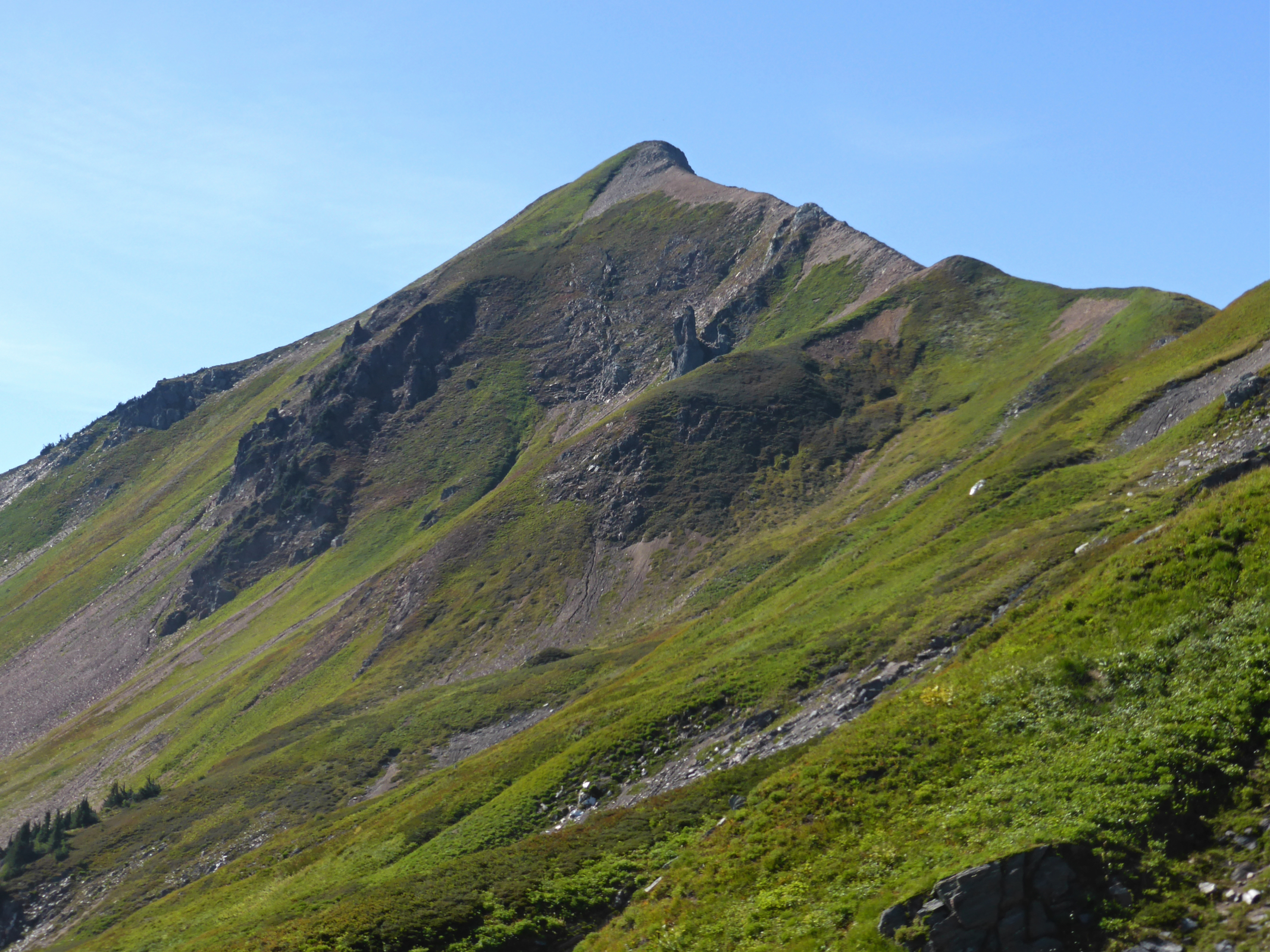 White Mountain from Foam Creek trail